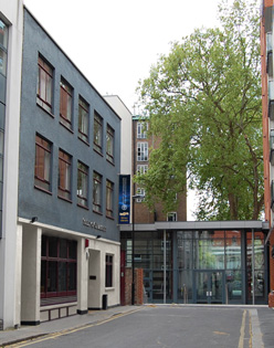 The Society of Genealogists building in London